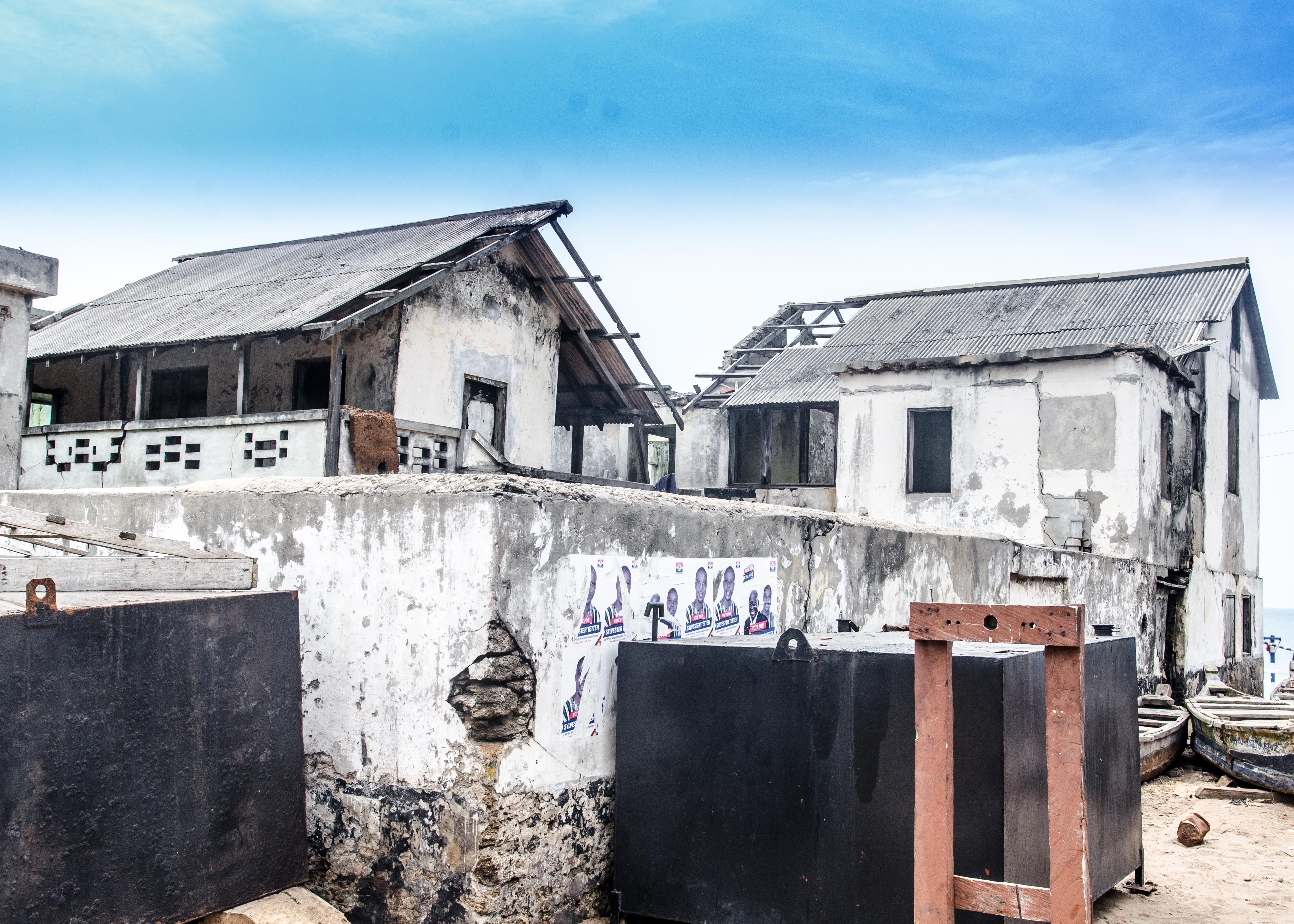 Wiki Loves Monument entry for Fort Vernon in Prampram in the Greater Accra Region of Ghana